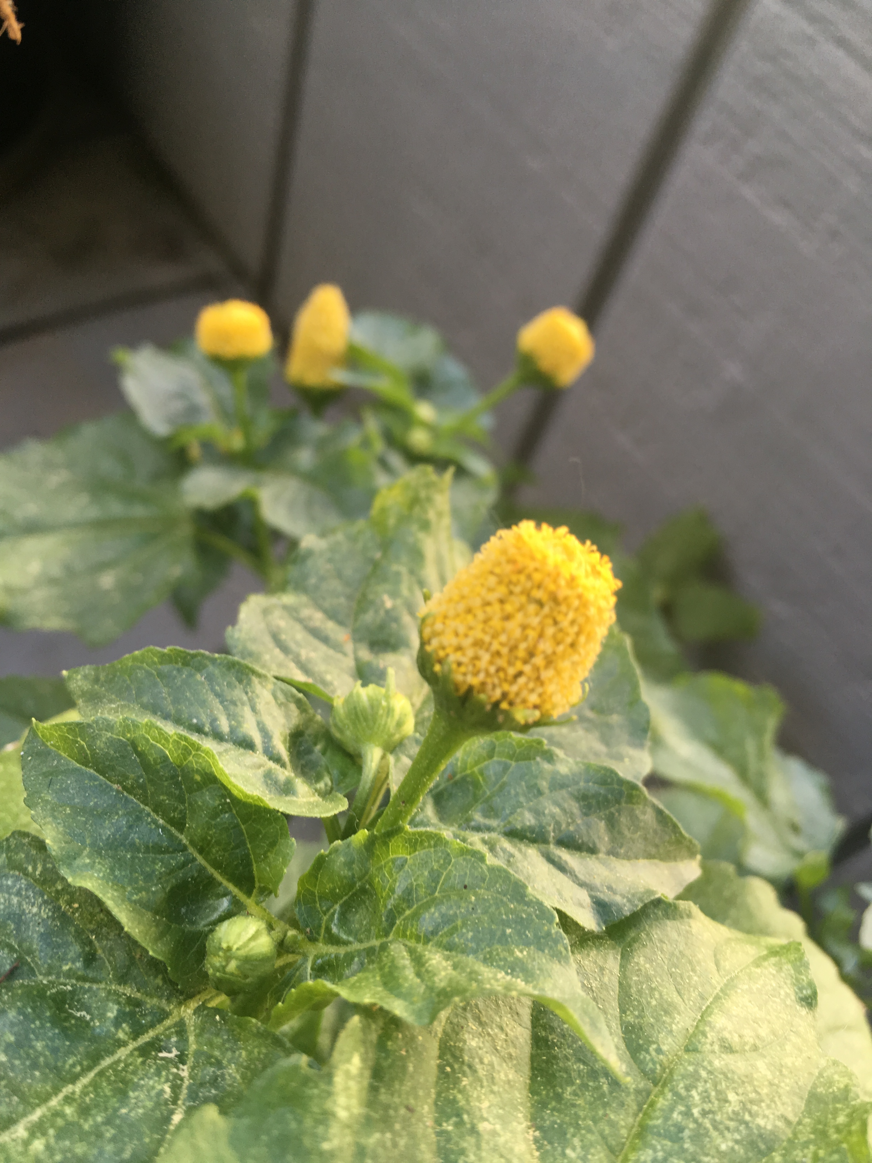 This is the flower and leaves of Acmella alba.